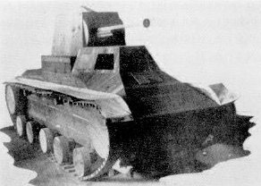 Prototype flying tank Special No.3 light tank Kuo-Ro